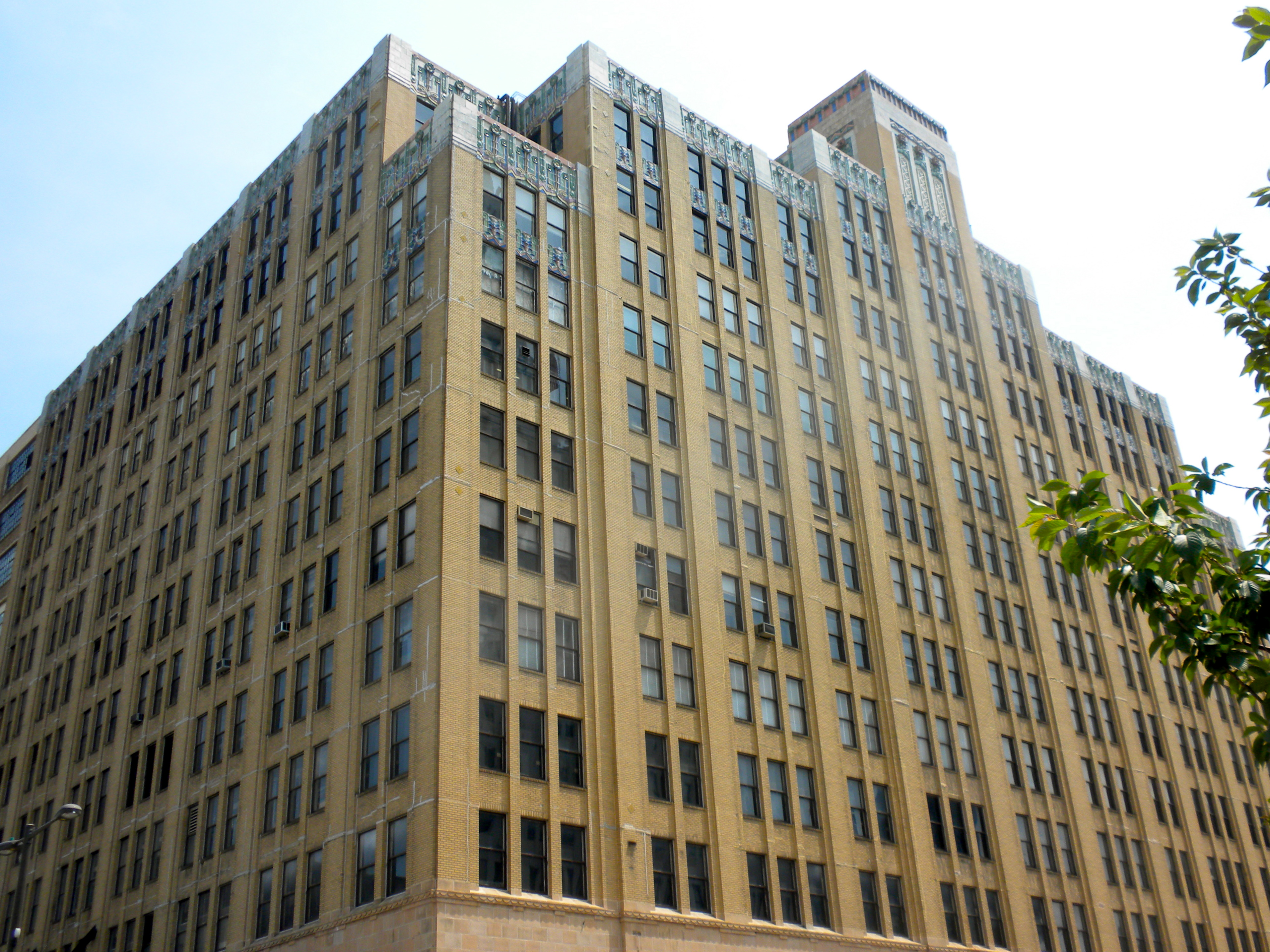 Terminal Commerce Building on NRHP since October 24, 1996. At 401 North Broad Street (4 blocks north of City Hall) in the Callowhill district of Philadelphia